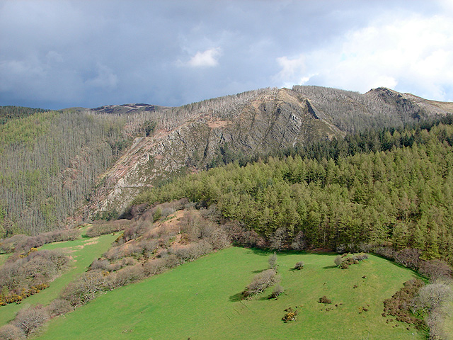 Esgair Nantyrarian viewed from the A44 This was once an area of extensive mining activity. There are now many forest trails in the area.